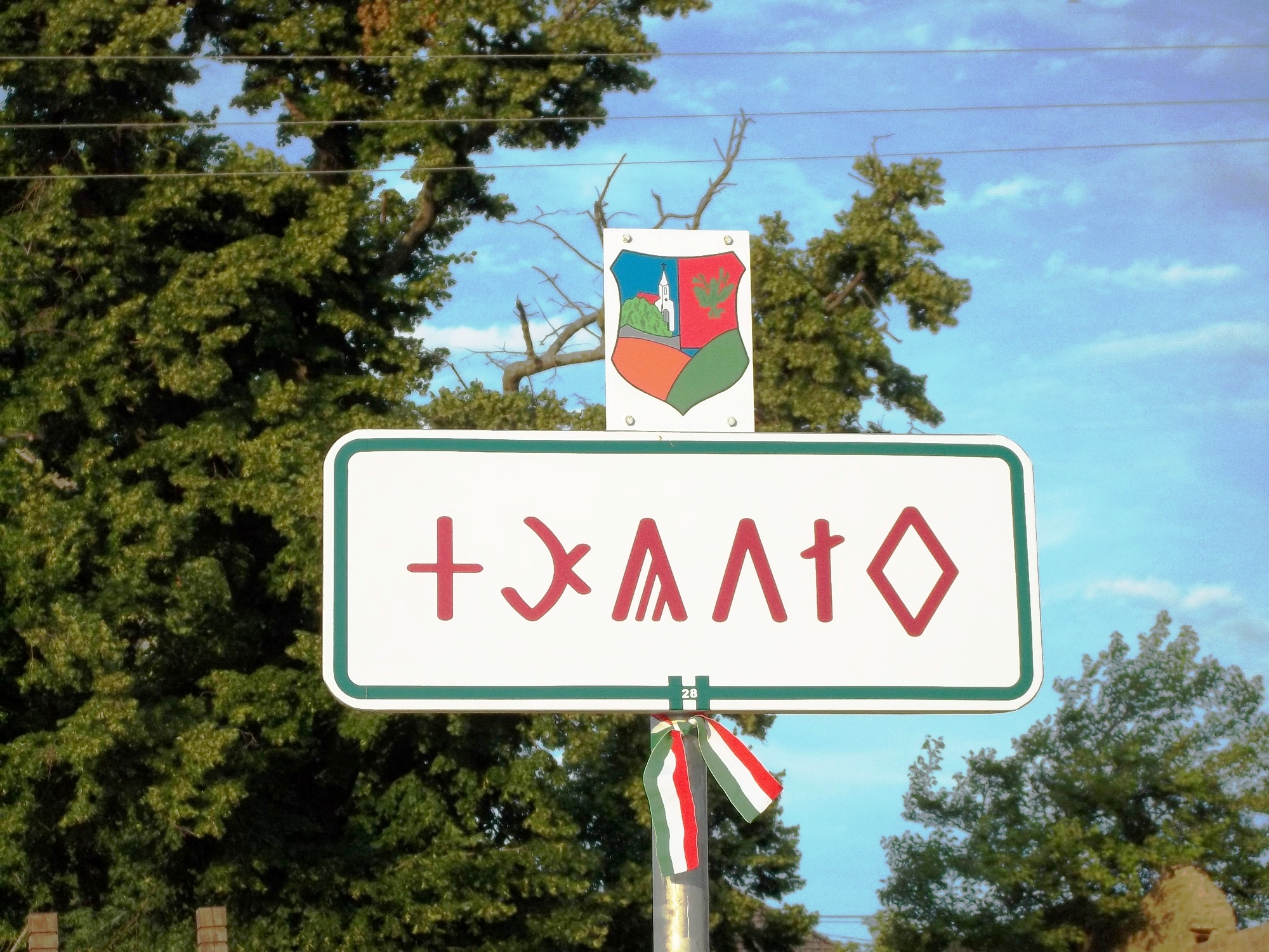 City limit table in Kislod, Hungary. Traditional Hungarian letters (rovas)